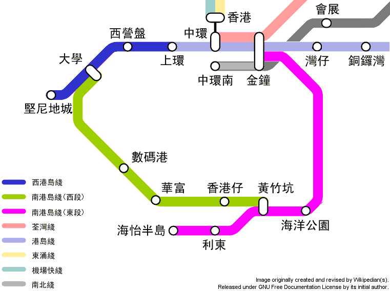 Modified Hong Kong MTR West Island Line and South Island Line proposal. (Chinese version)